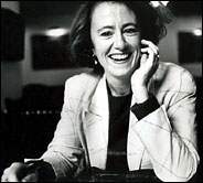 Photograph of Marjorie Williams by Donna Femat